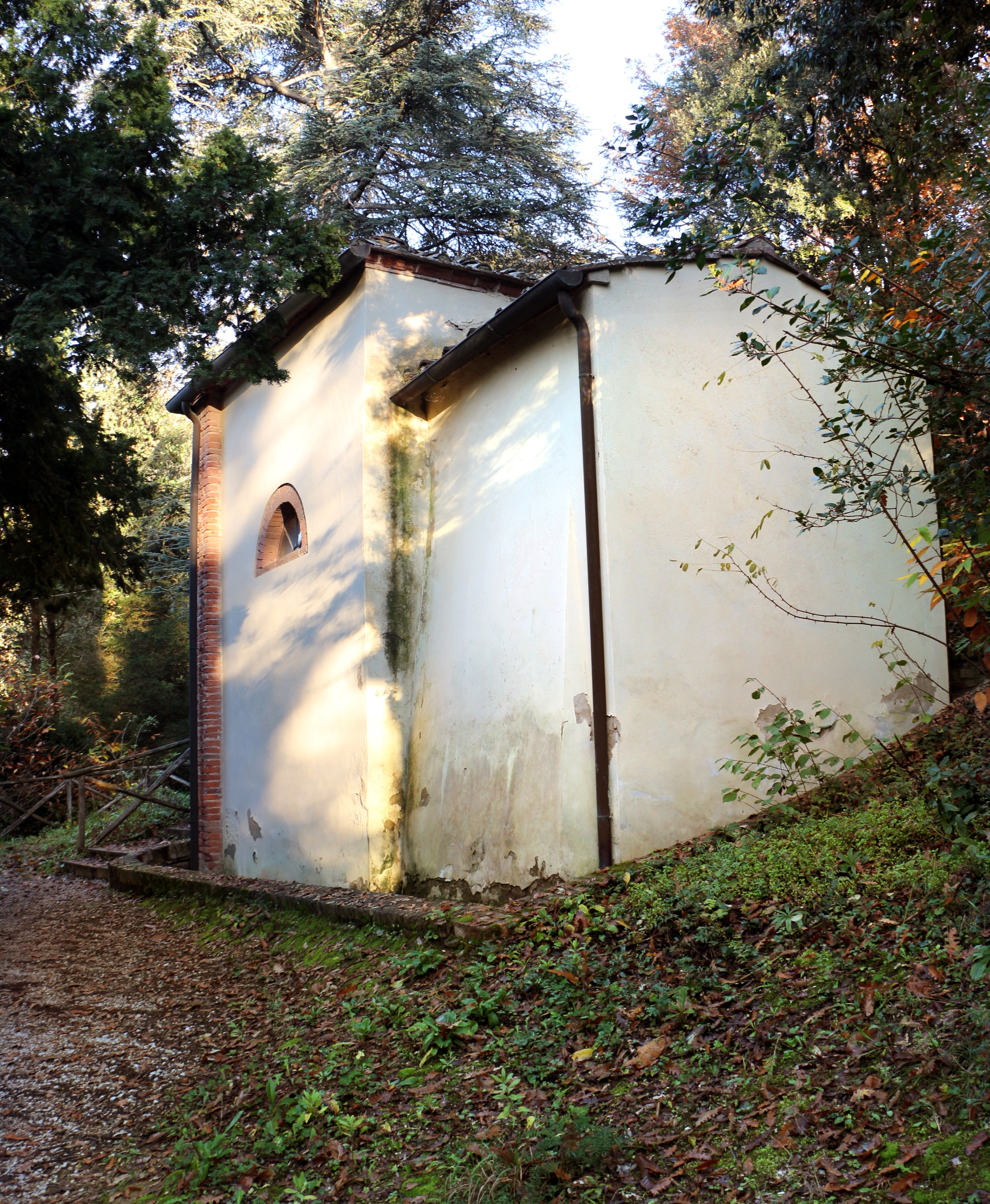 San Vivaldo Sacro Monte